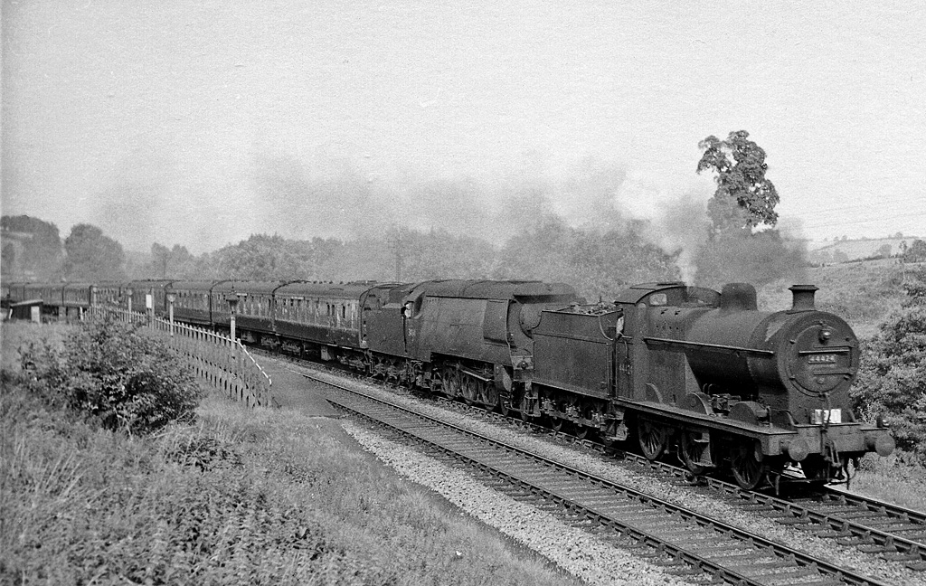 Southbound Pines Express passing Shoscombe & Single Hill Halt, S&D Joint line. View NE, towards Bath (Green Park); ex-Somerset & Dorset (Midland & London & South Western) Bath - Templecombe - Bournemouth line. On a Summer Saturday and this was the Manchester (dep. London Road 10.25) portion of the Pines Express: the SR Light Pacific No. 34041 'Wilton' is piloted by LMS 4F 0-6-0 No. 44424